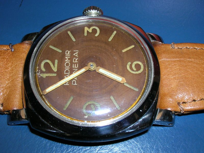 This work is free and may be used by anyone for any purpose. If you wish to use this content, you do not need to request permission as long as you follow any licensing requirements mentioned on this page.